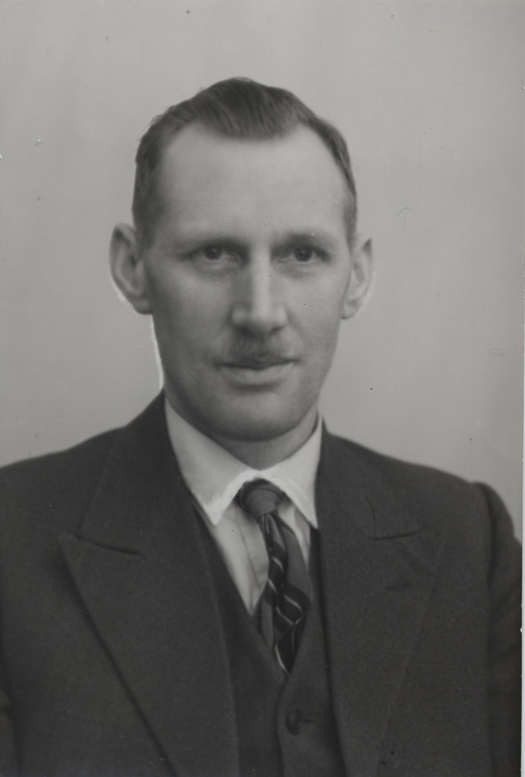 Martin Strandli (1890-1793) grunnla OBOS i 1929 og regnes som "Oslos ukjente grunnlegger." Foto: OBOS.